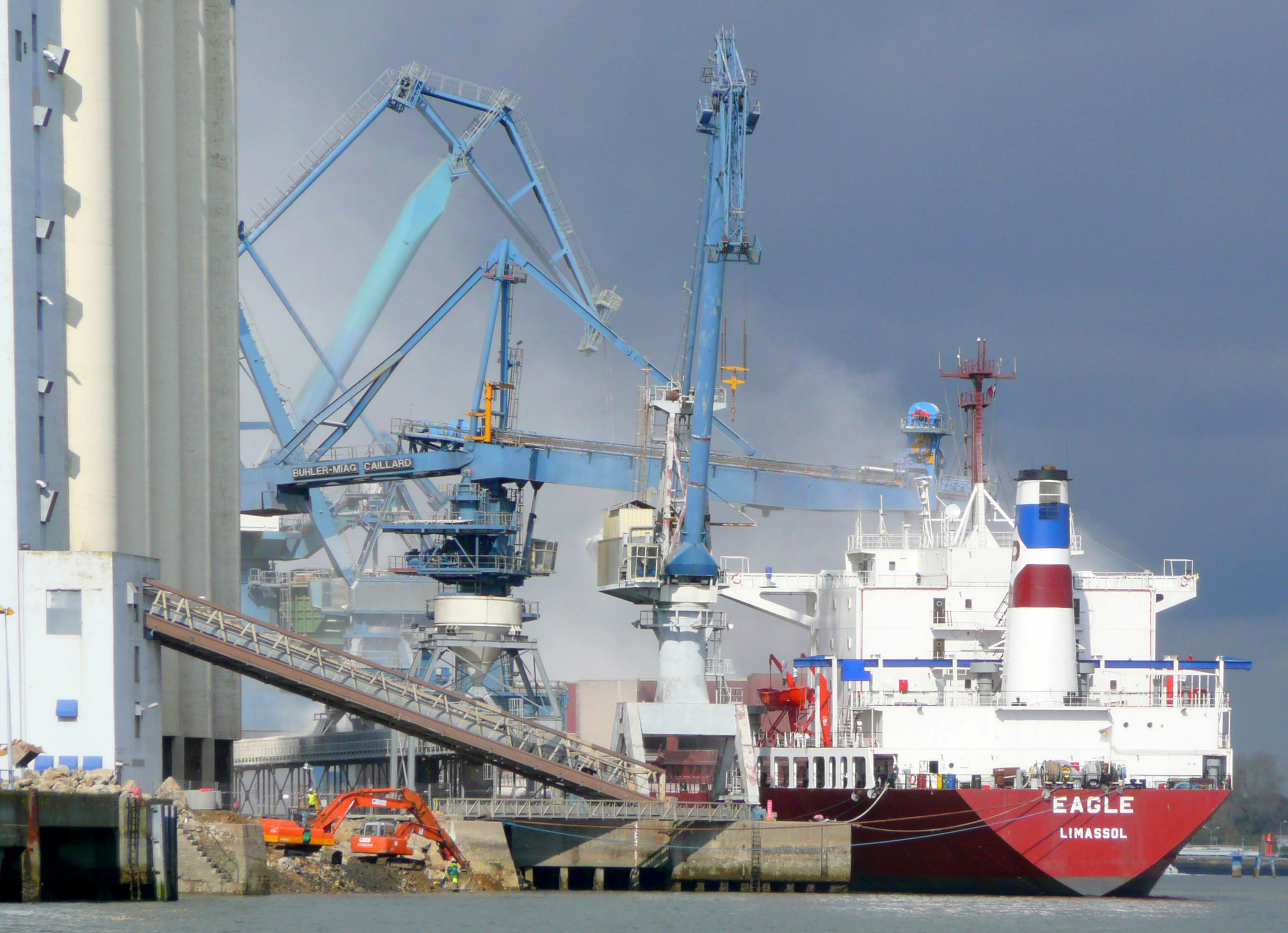 Cargo ship Eagle unloading rapeseed in Lorient (France). IMO number: 8126408 Callsign: P3HR8